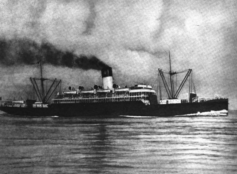 Southern Pacific Steamship Company's SS Antilles torpedoed while opeating as Army chartered U.S.A.T. Antilles